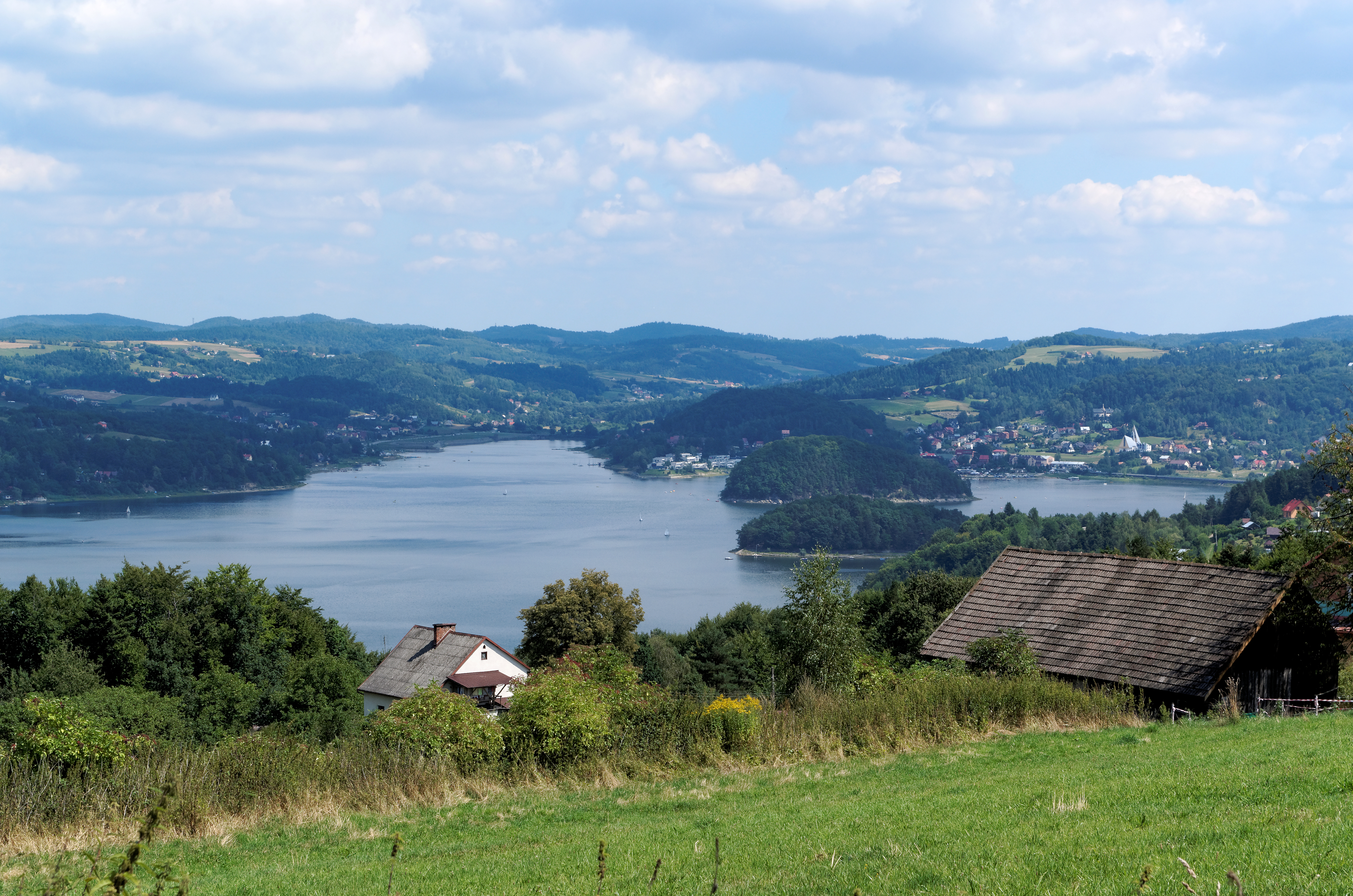 Lake Rożnów seen from Tabaszowa